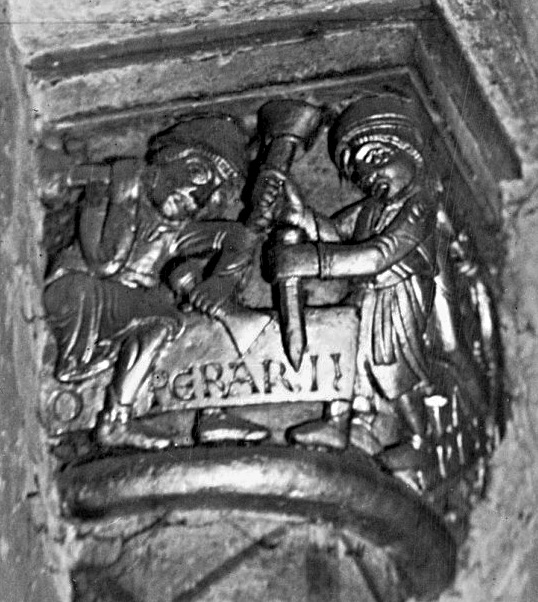 Maastricht, Basilica of Saint Servatius. One of the 34 elaborately carved Romanesque capitals in the Westwork (mid 12th c.). Capital #28 shows the stone carvers ("OPERARII") at work. Edited version of a photograph taken by Hoog, G. de (Fotograaf) in May 1916.